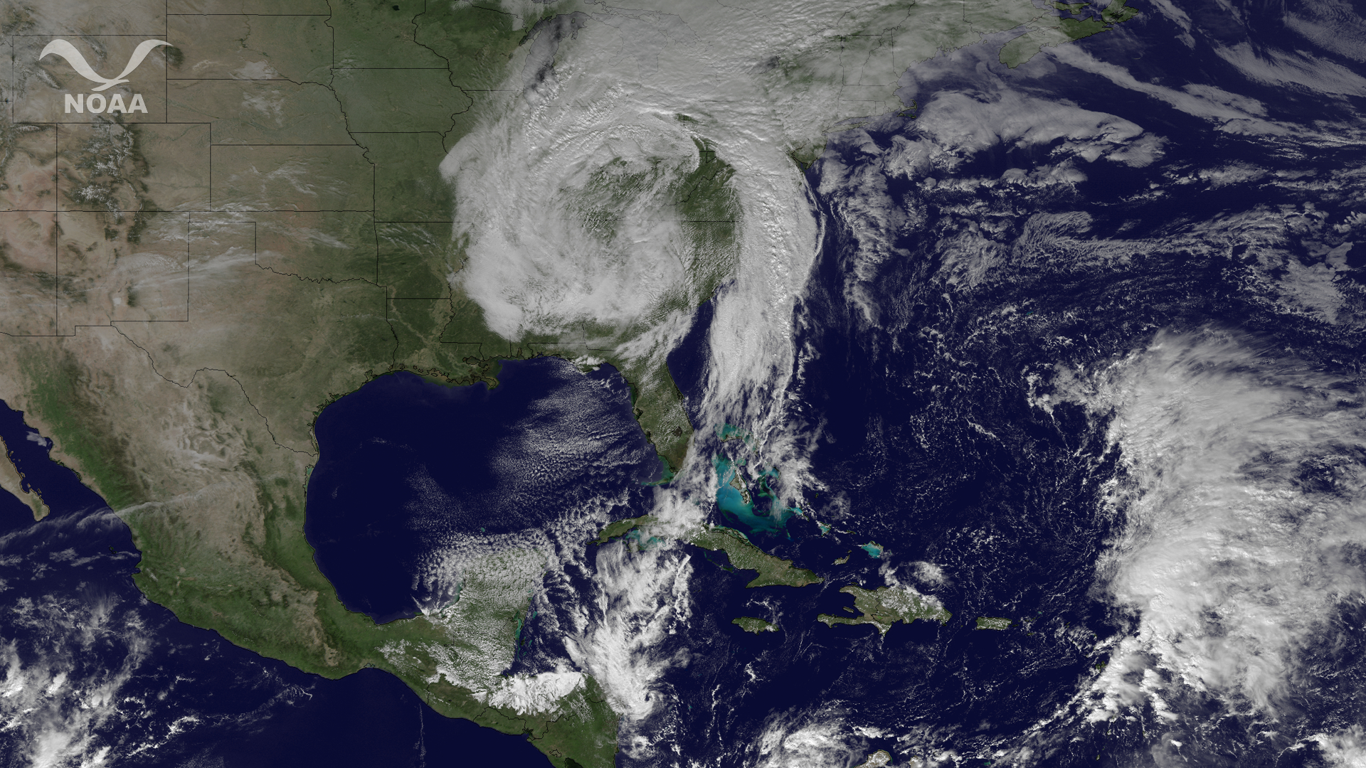 Storm system over the United States: This image was taken by GOES East at 1715Z on November 29, 2011.